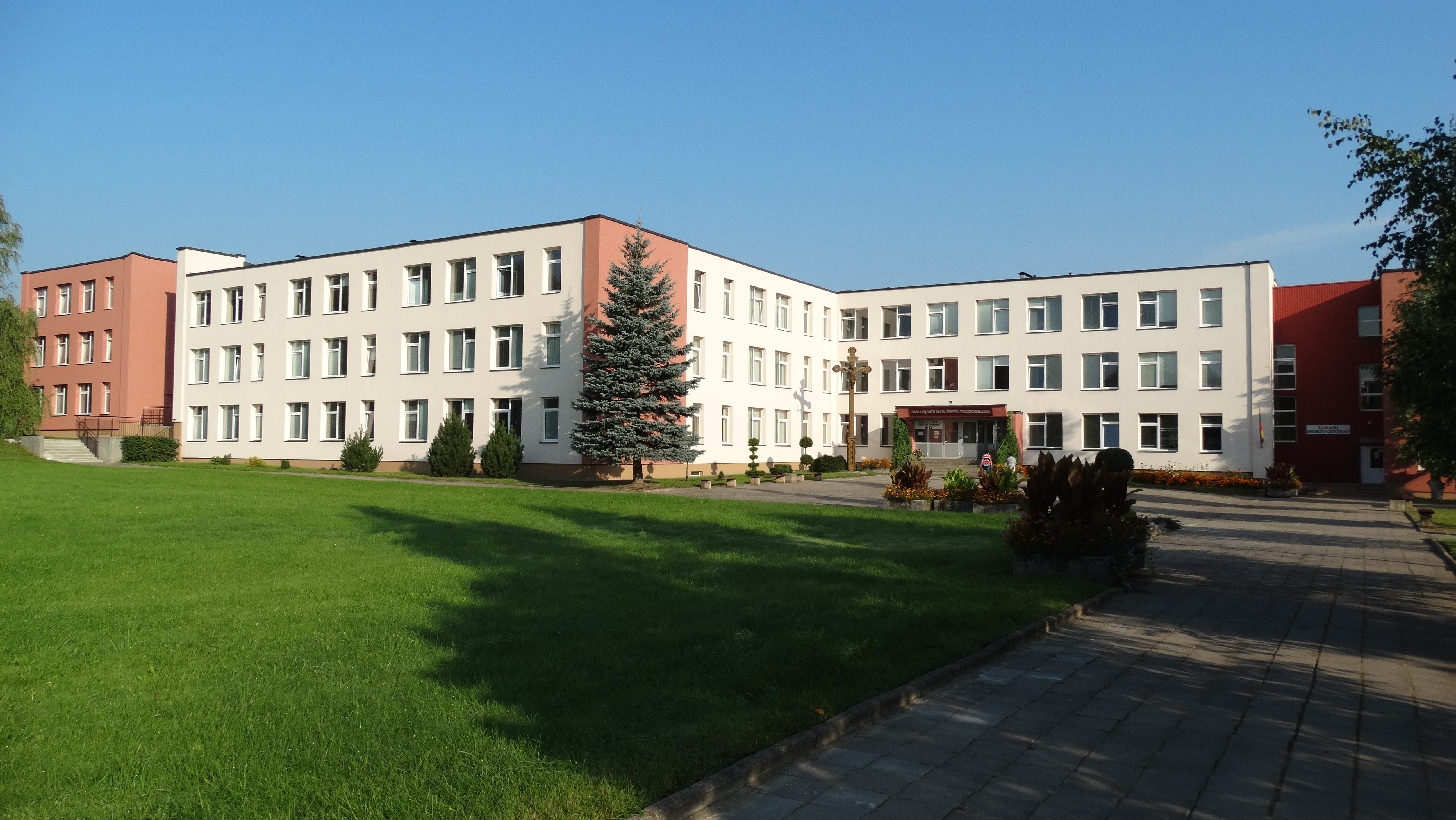 Paulius Širvys Progymnasium, Zarasai, Lithuania